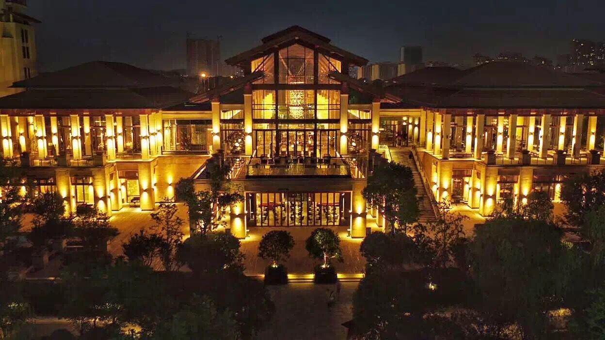 Hilton Hotel in Guanggu District ,Wuhan